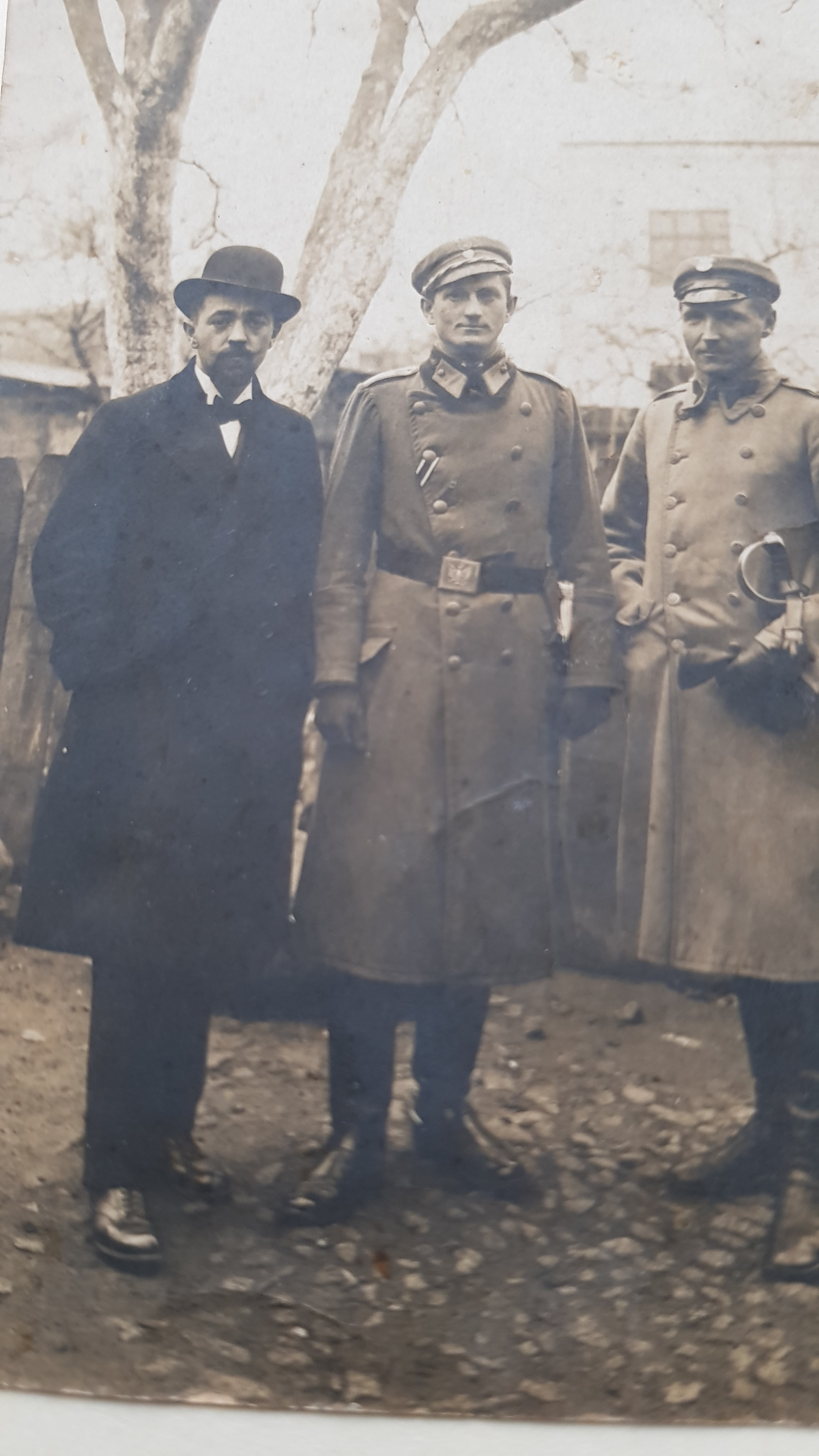 Stanislaw Witkowski in the uniform of the Polish Legions